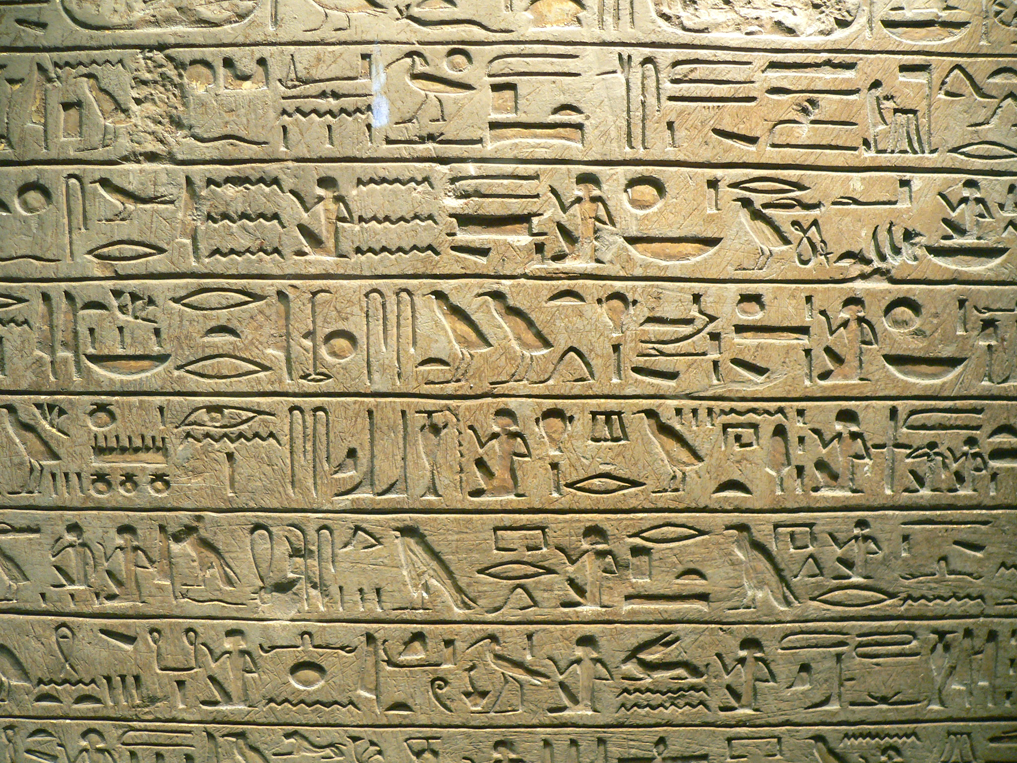 Stele of Minnakht, chief of the scribes. during the reign of Ay (c. 1321 BC)Hieroglyphs: 6 rows-(read from left–to–right) Row-(Register)–1--Legs Walking--Returning Row-(Register)–2--Bowstring, Man Row-(Register)–3--Plants-"Garland", "Tongue-of-land", Time Row-(Register)–4--Vase with water Row-(Register)–5--Arms spread palms-up, Follower (šms), Row-(Register)–6--Intestine